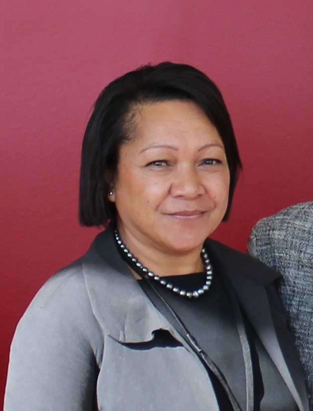 Niue MP Mona Ainu’u in Wellington, NZ, in 2017